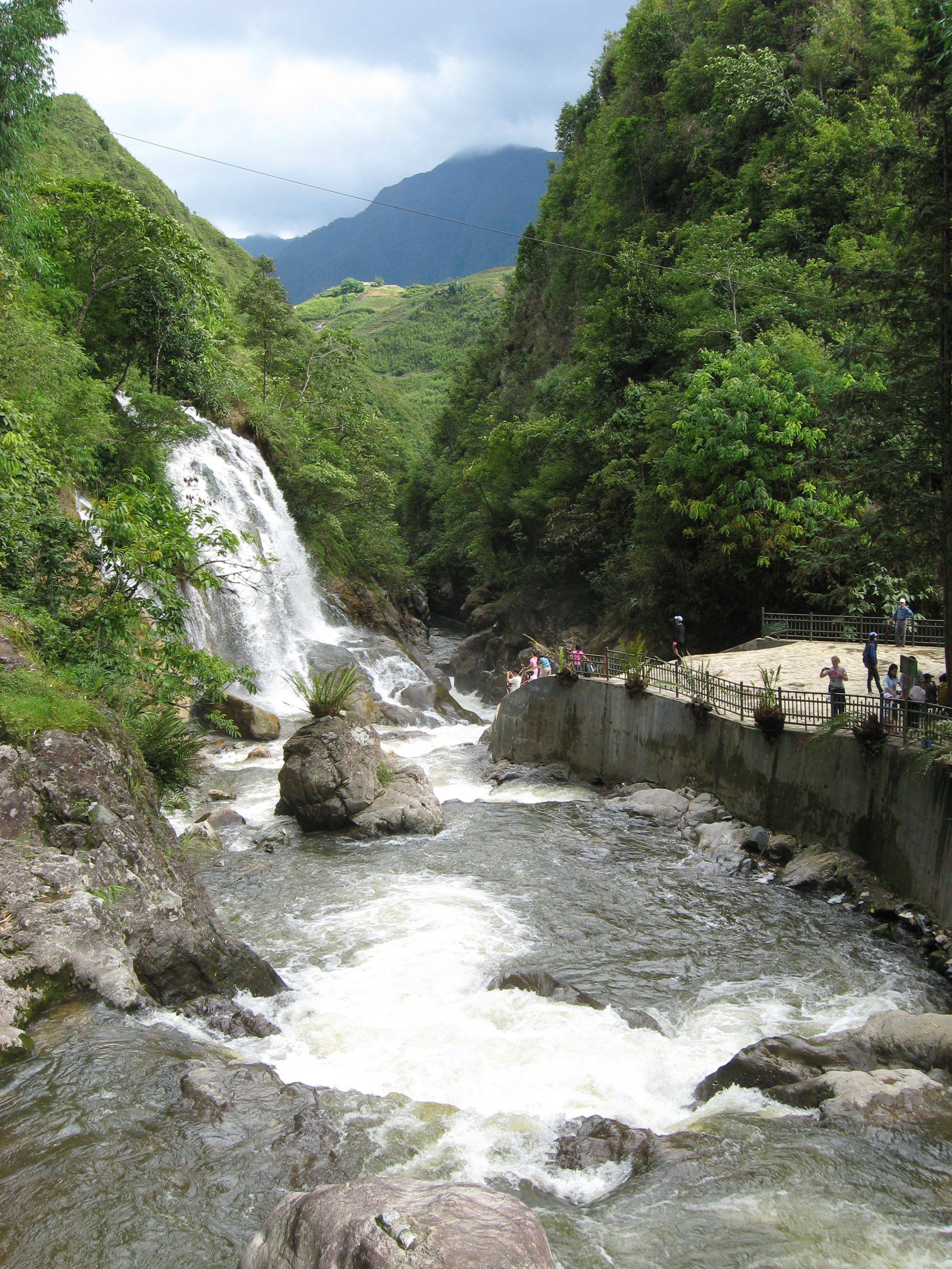 Tien Sa Waterfall, in Cat Cat Village, Sa Pa.